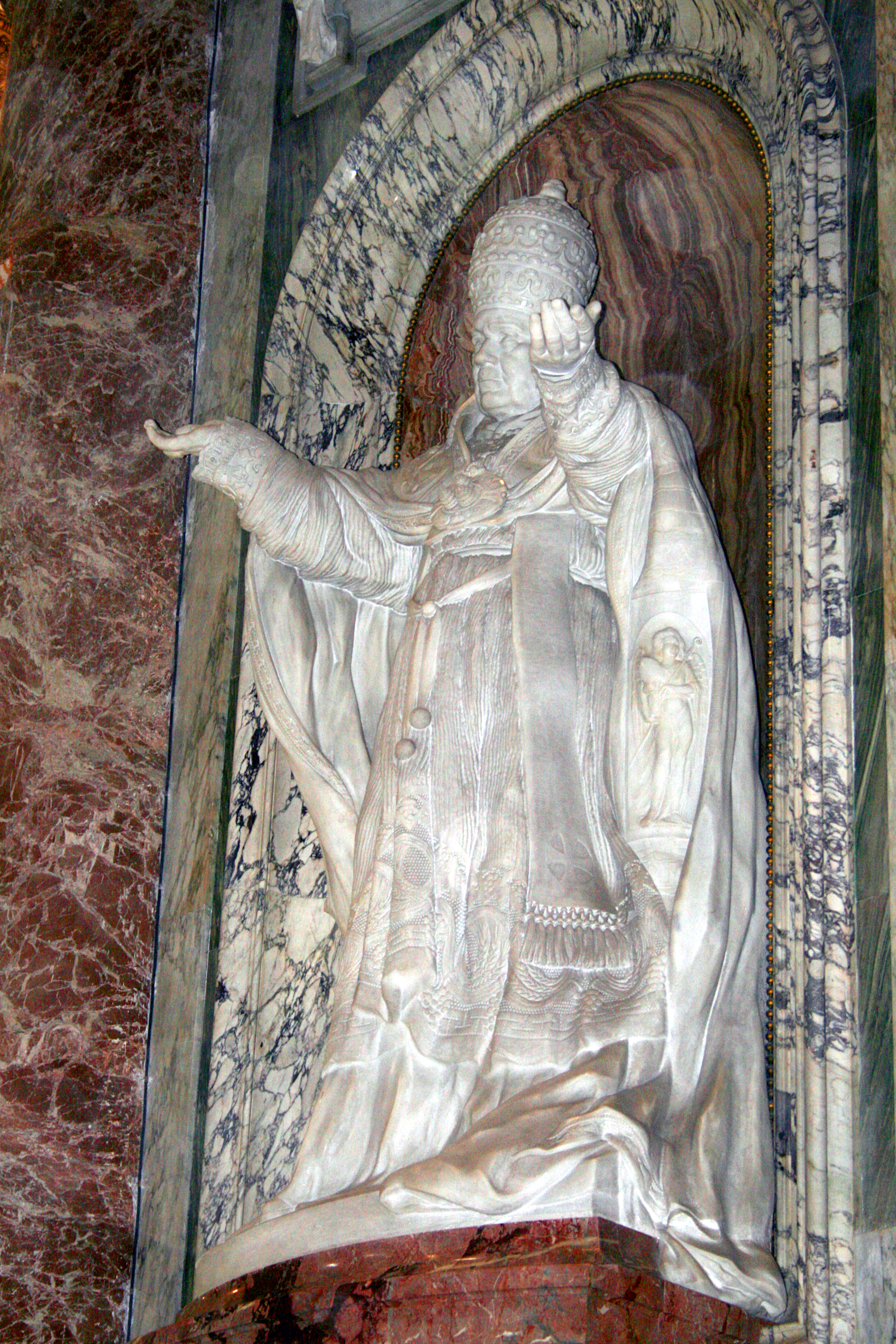 Statue of Pope Pius X, St. Peter's Basilica, Vatican.